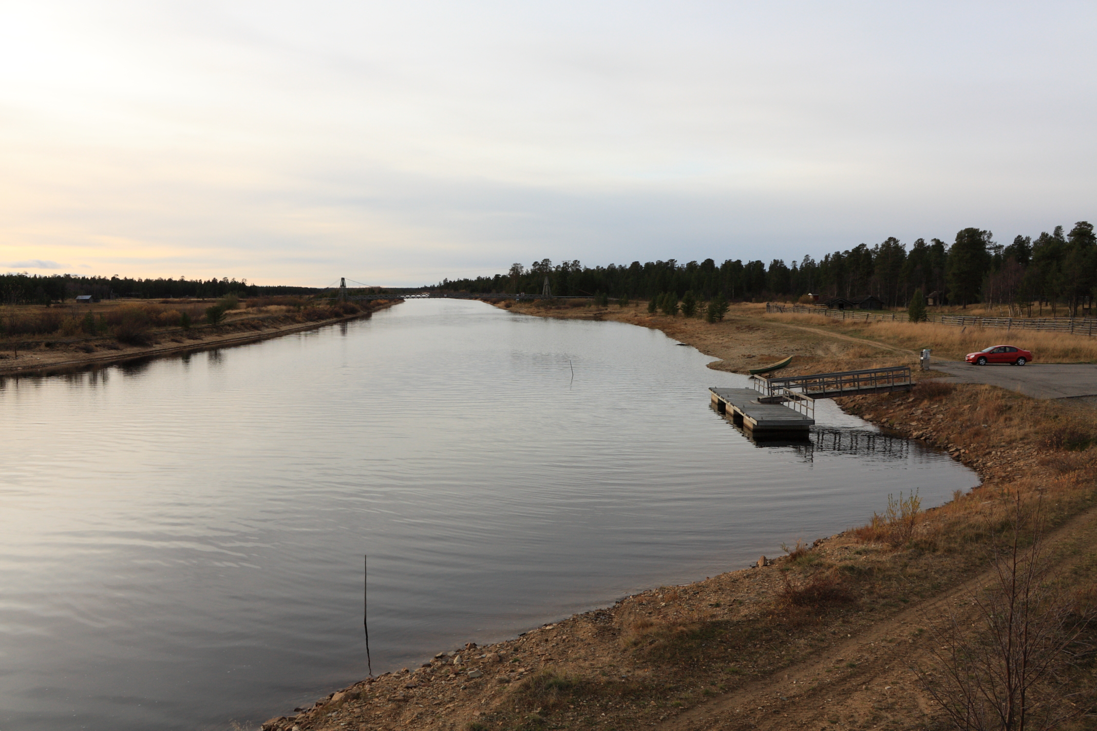 Vuotso canal connects Porttipahta and Lokka reservoirs in Sodankylä, Finland. The picture is taken close to the bridge in Vuotso village.